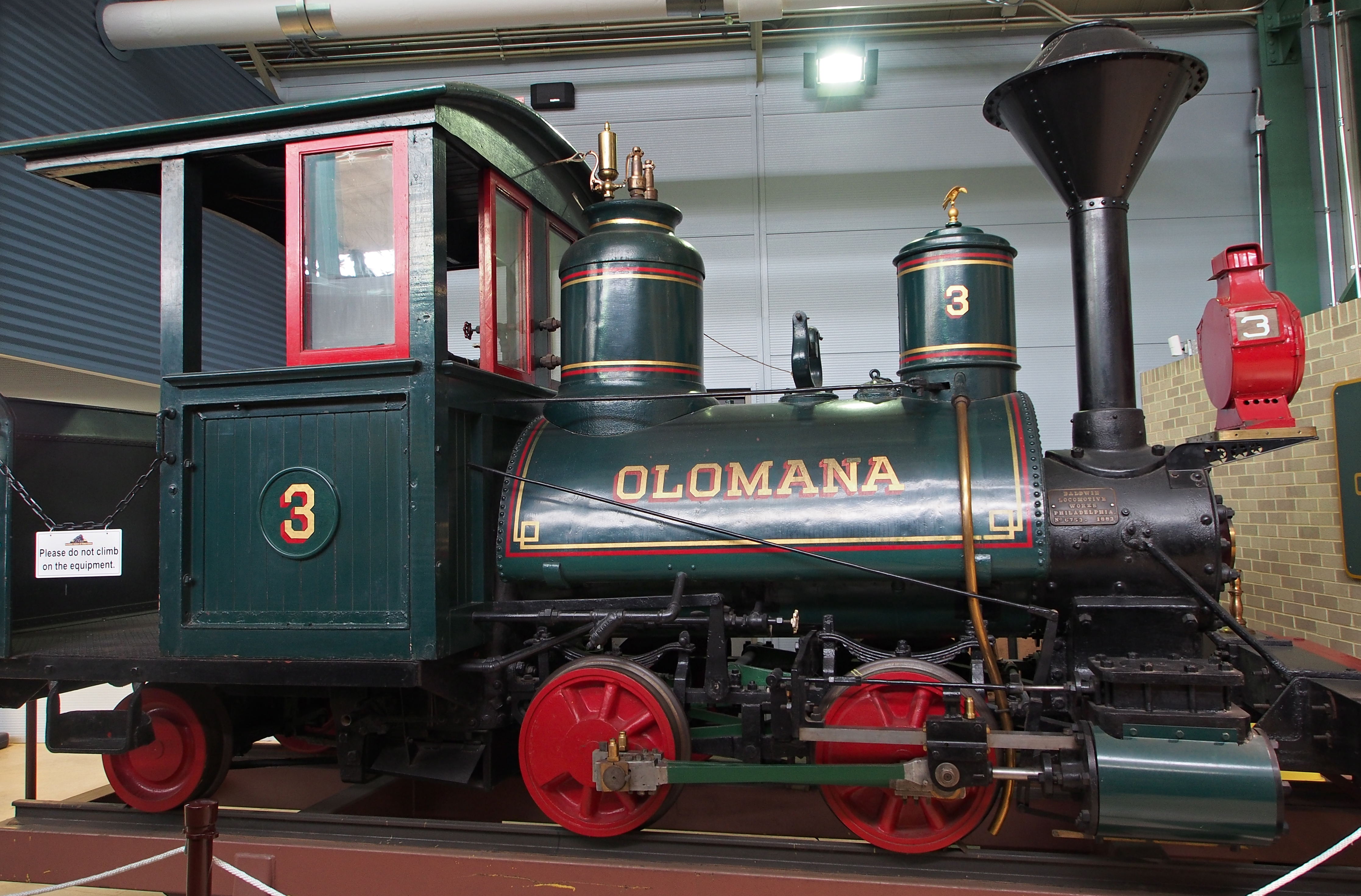 Waimanalo Sugar Company locomotive No. 3 Olomana from the Railroad Museum of Pennsylvania. It is listed on the roster as RR28.1999.